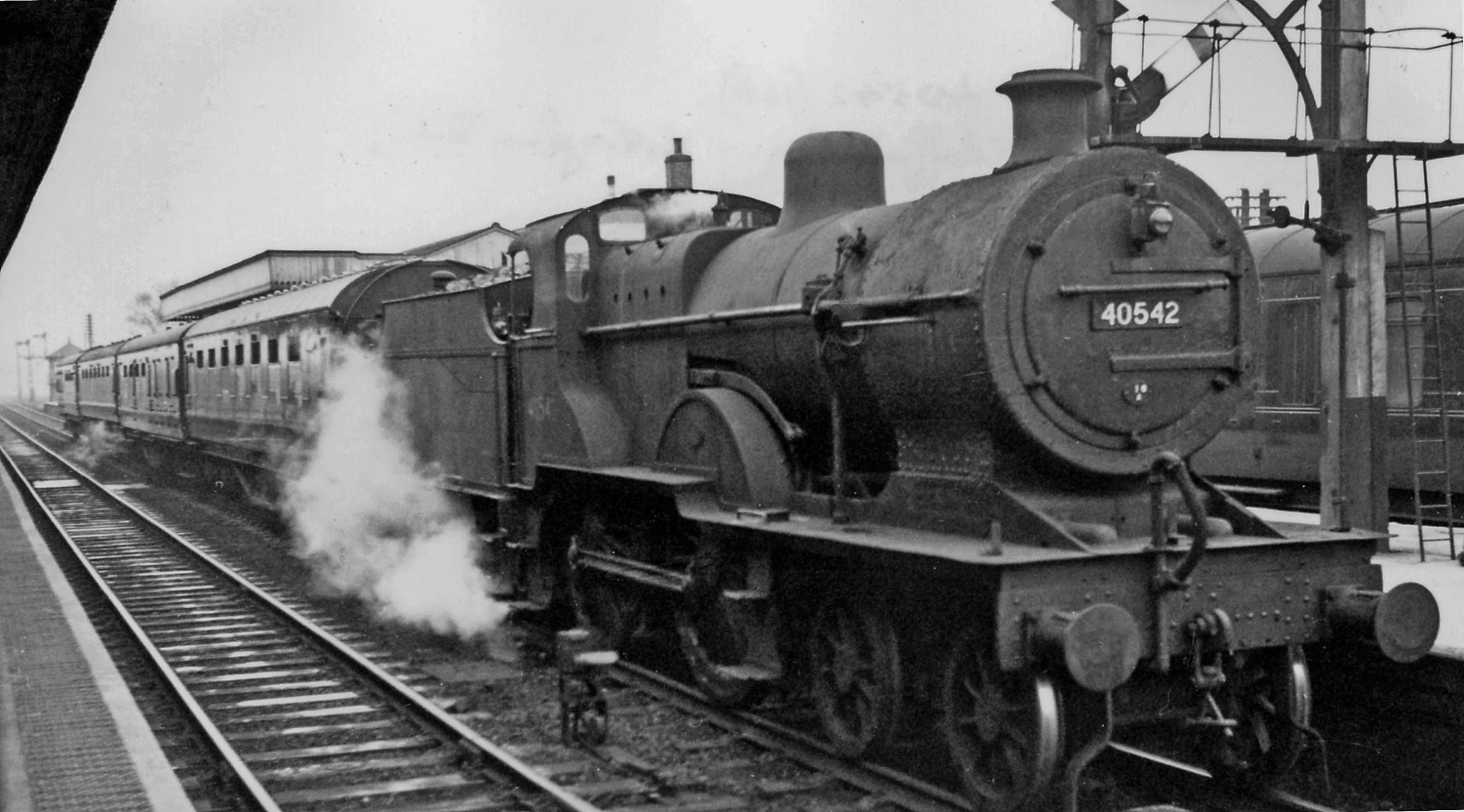 Up stopping train at Chesterfield (Midland). View northward, towards Sheffield, Leeds etc.: ex-Midland Main Line. The 12.35 Sheffield (Midland) to Nottingham (Midland) is headed by rebuilt Midland Johnson 2P 4-4-0 No. 40542.